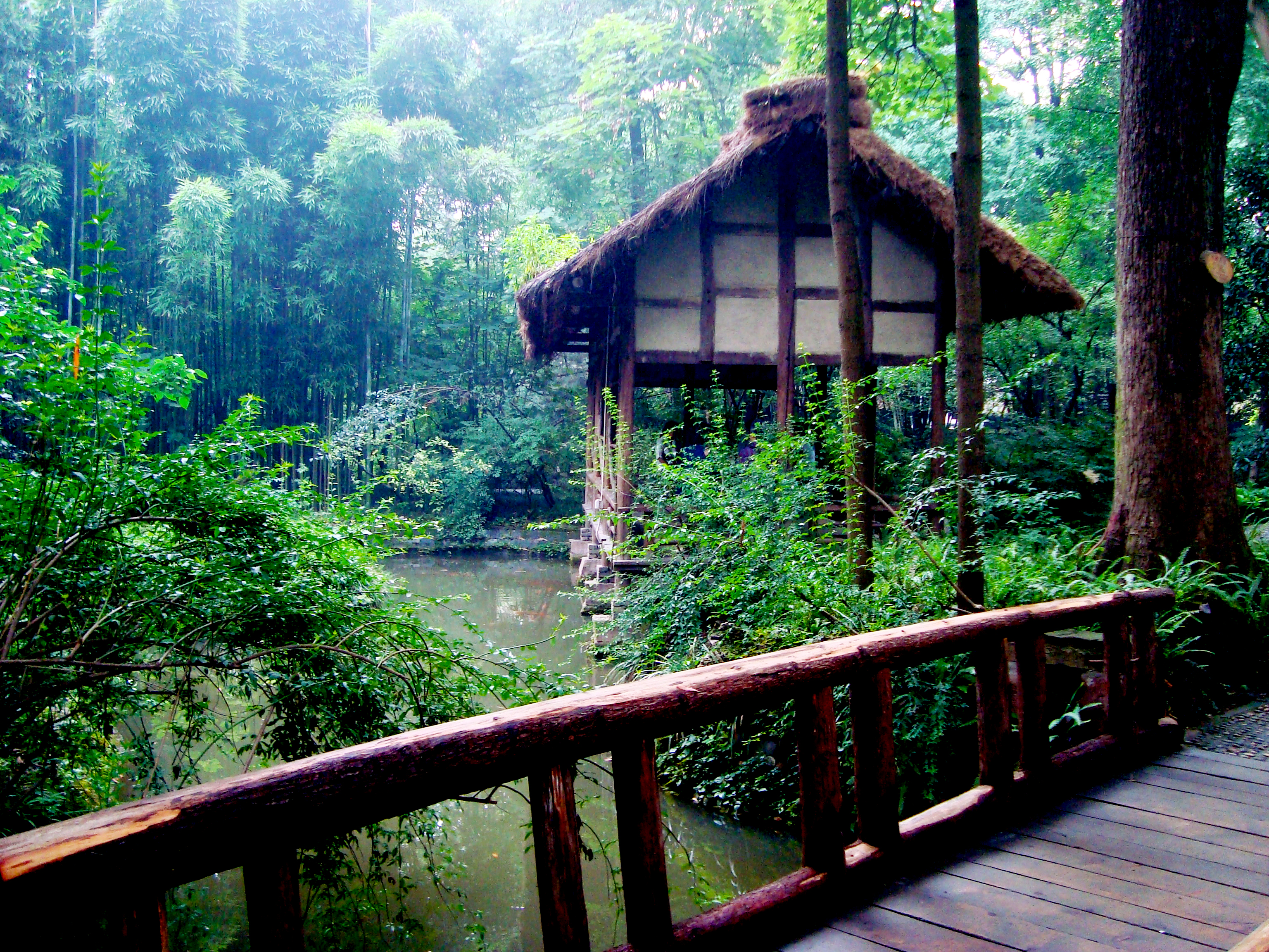 Du Fu's Thatched Cottage Museum in Chengdu